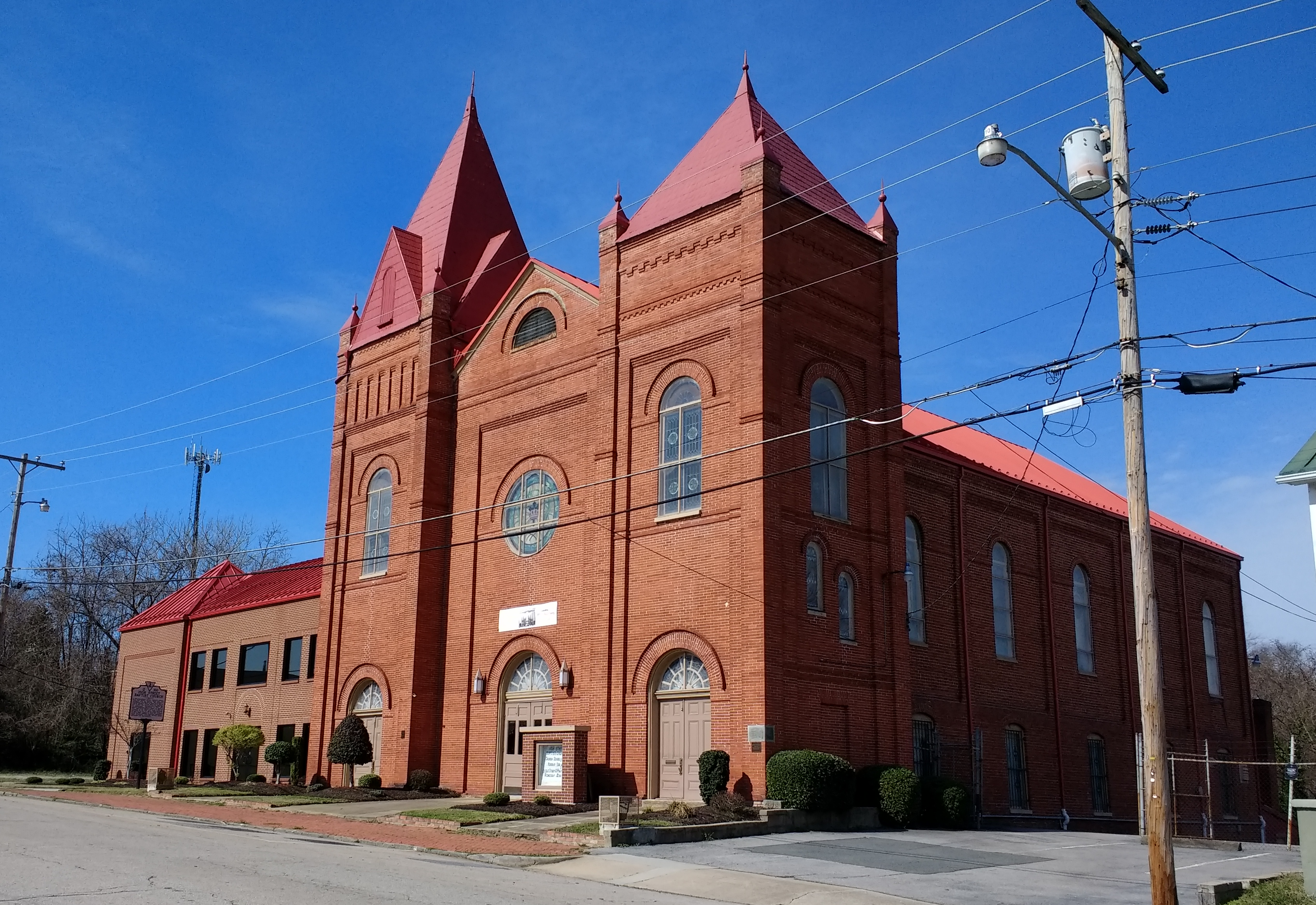 High Street Baptist Church, a contributing building in the Mechanicsville Historic District in Danville, Virginia.